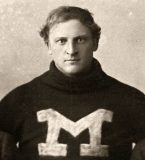 Photograph of F. M. Hall